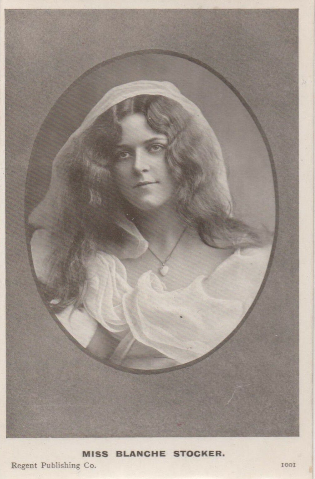 Postcard for the actress Blanche Stocker (1884-1950) by Regent Publishing (1906)